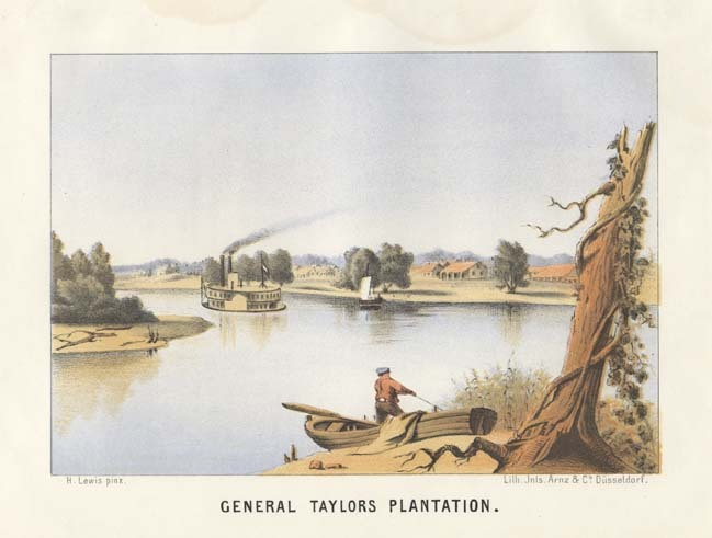 General Taylors Plantation (Cypress Grove Plantation), painted by Henry Lewis, in Das Illustrirte Mississippithal (The Valley of the Mississippi Illustrated), by C. H. Muller. Aachen, p. 384.